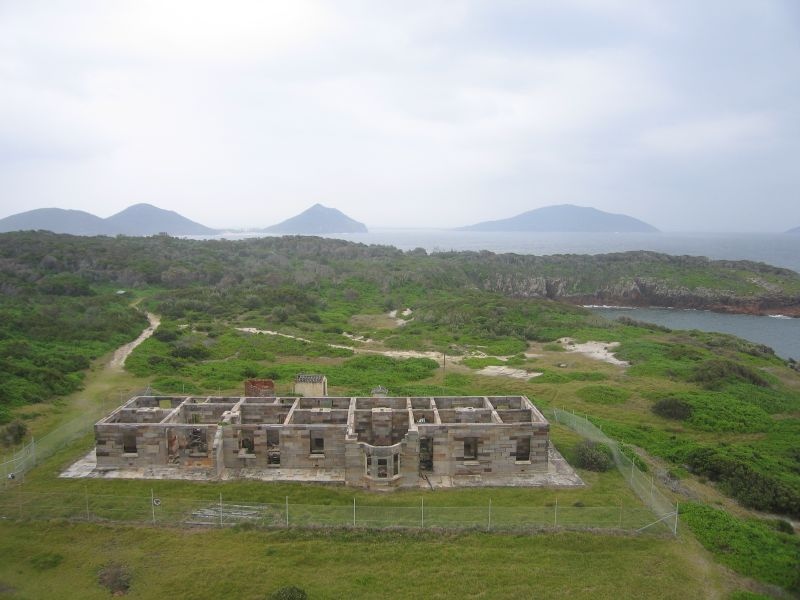 View of Port Stephens from Point Stephens Lighthouse. Burnt-out light keepers cottages below (they were burnt down about a year after the light keepers had moved out).